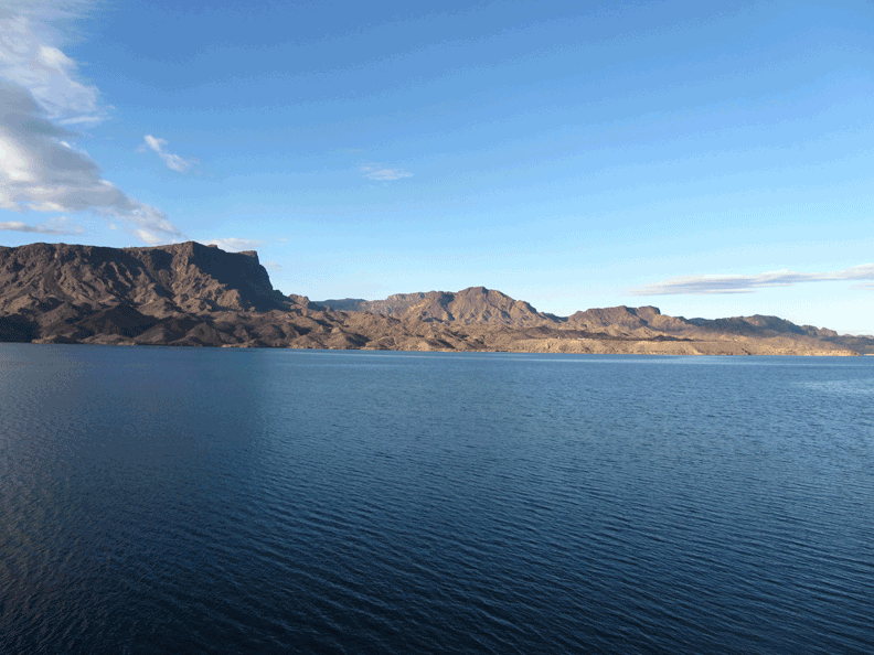 Found in Cattail Cove State Park, California.